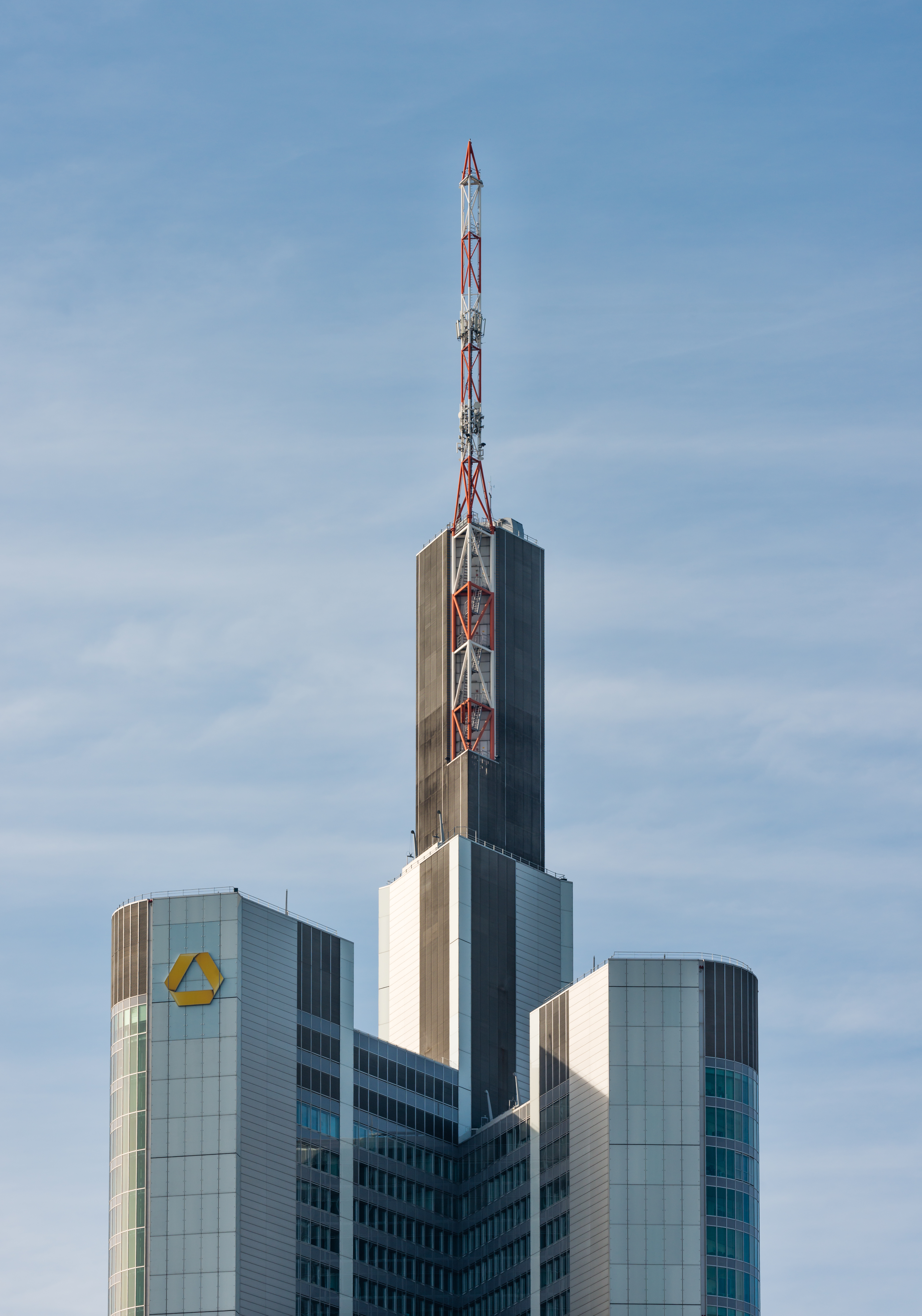 Top of the Commerzbank Tower, Frankfurt, Hesse, Germany (2015).